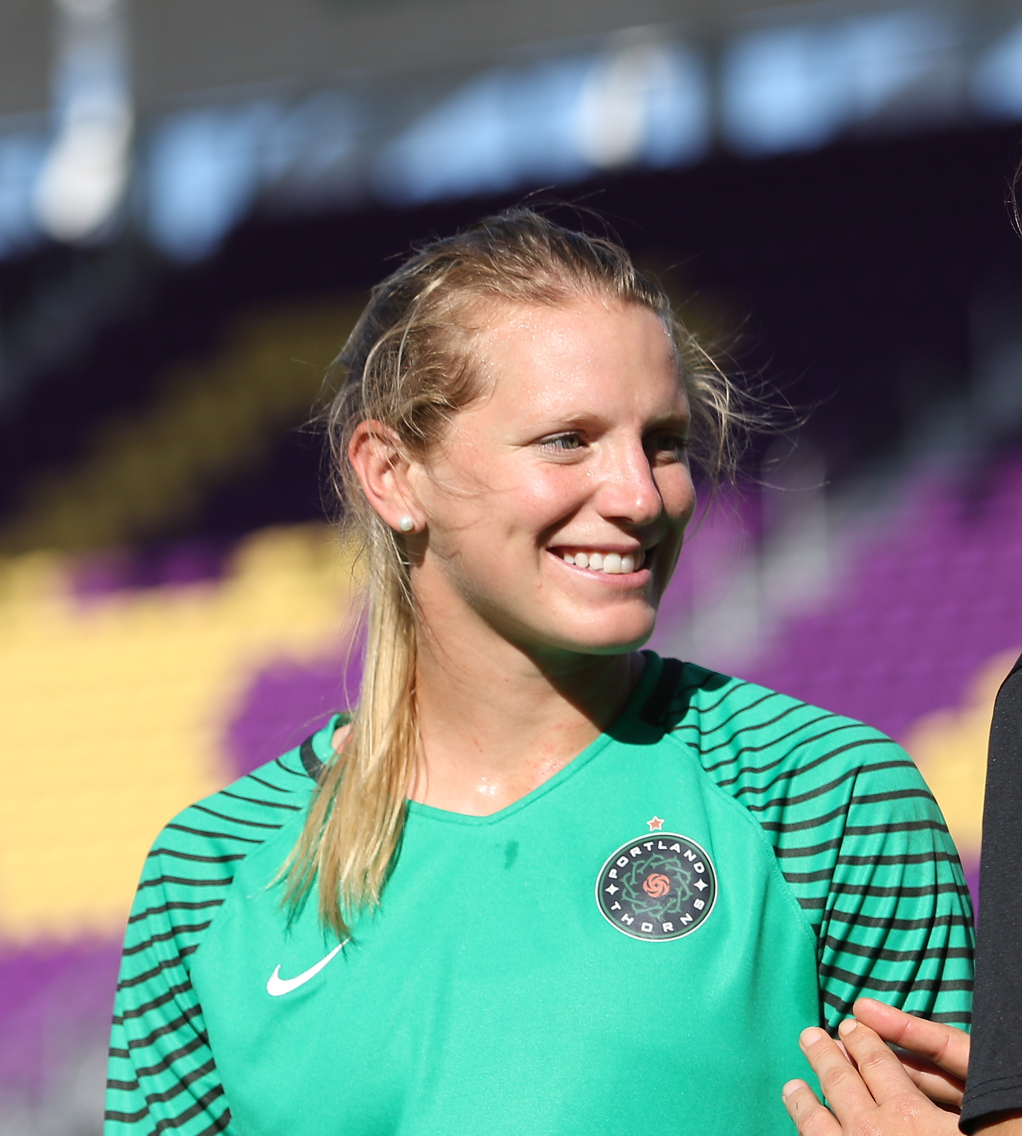 Britt Eckerstrom playing for the Portland Thorns FC in 2017